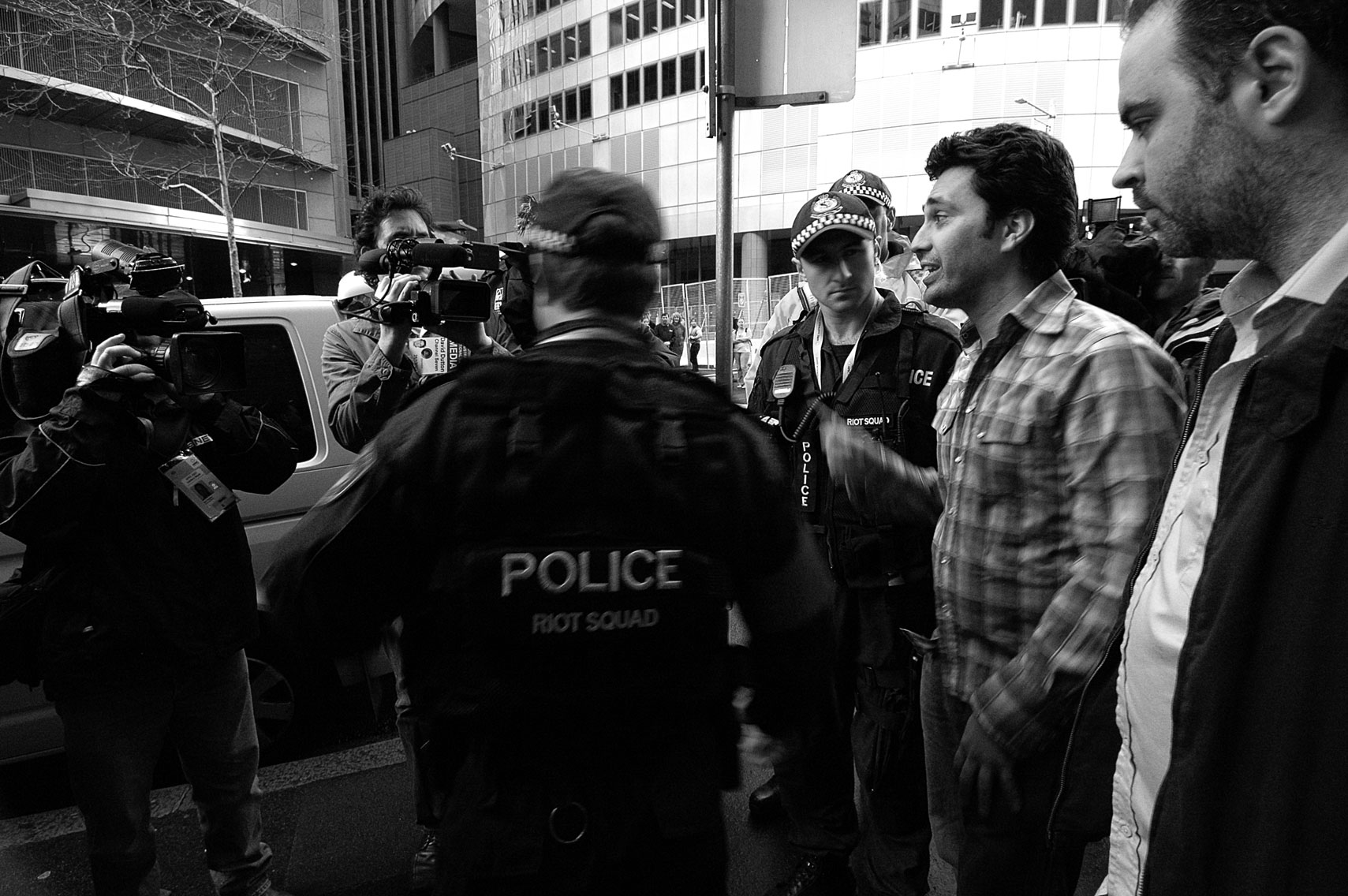 Chris Taylor (second from right) and Dominic Knight (far right) from The Chaser, at the 2007 APEC Australia Summit, 2007.